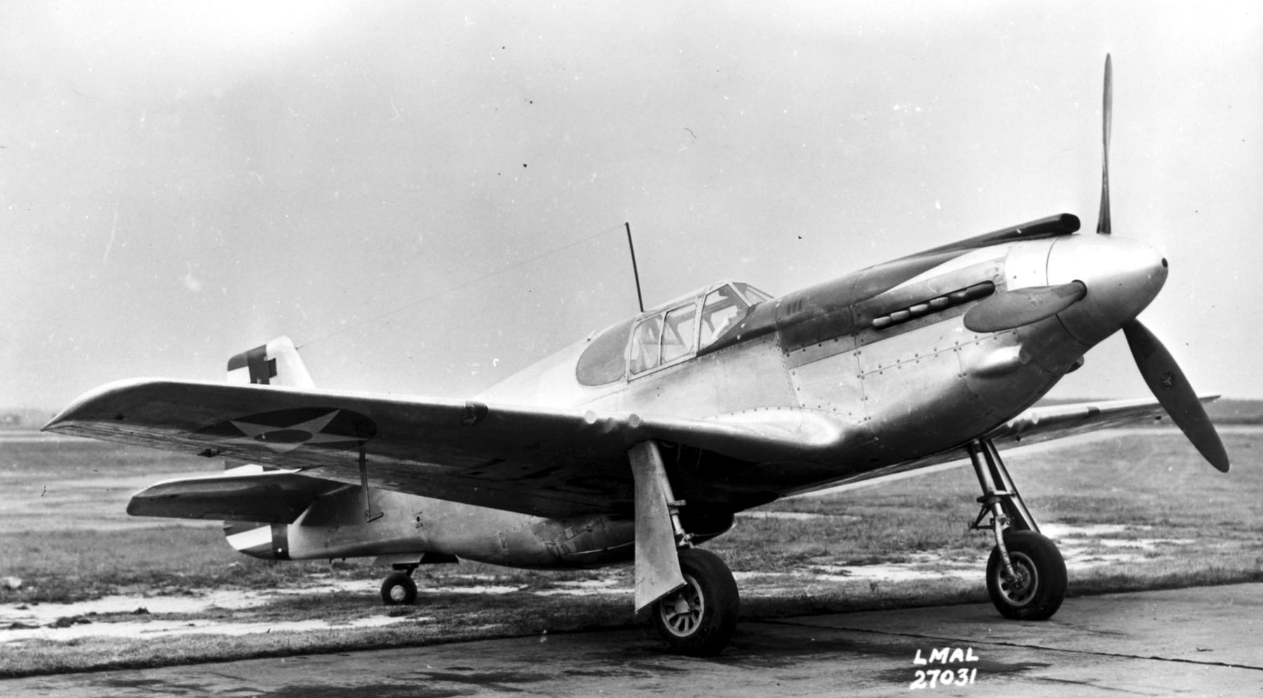 North American XP-51 3/4 front view (S/N 41-039, 2nd a/c built).